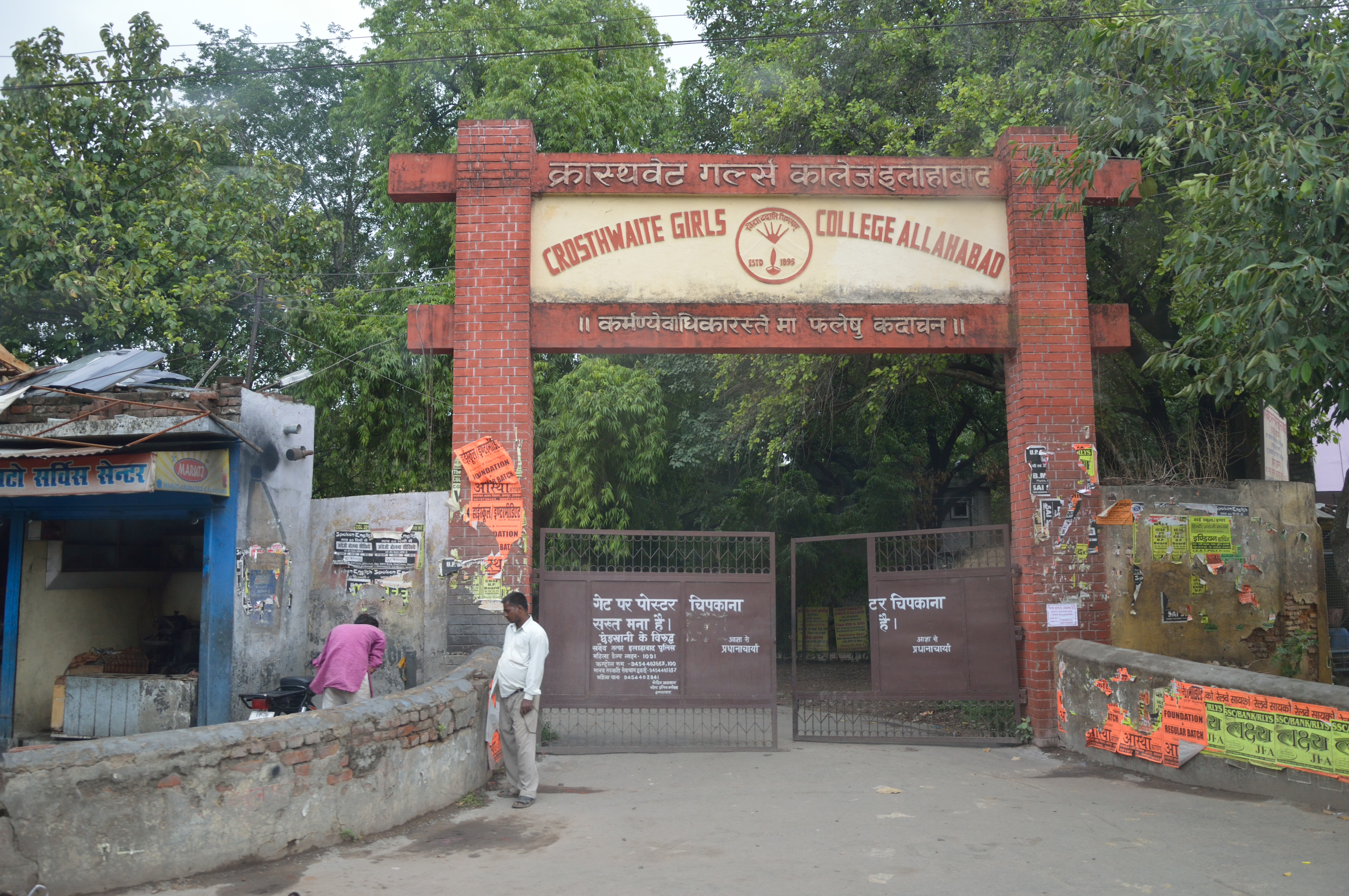 This photograph was taken in Uttar Pradesh (UP).